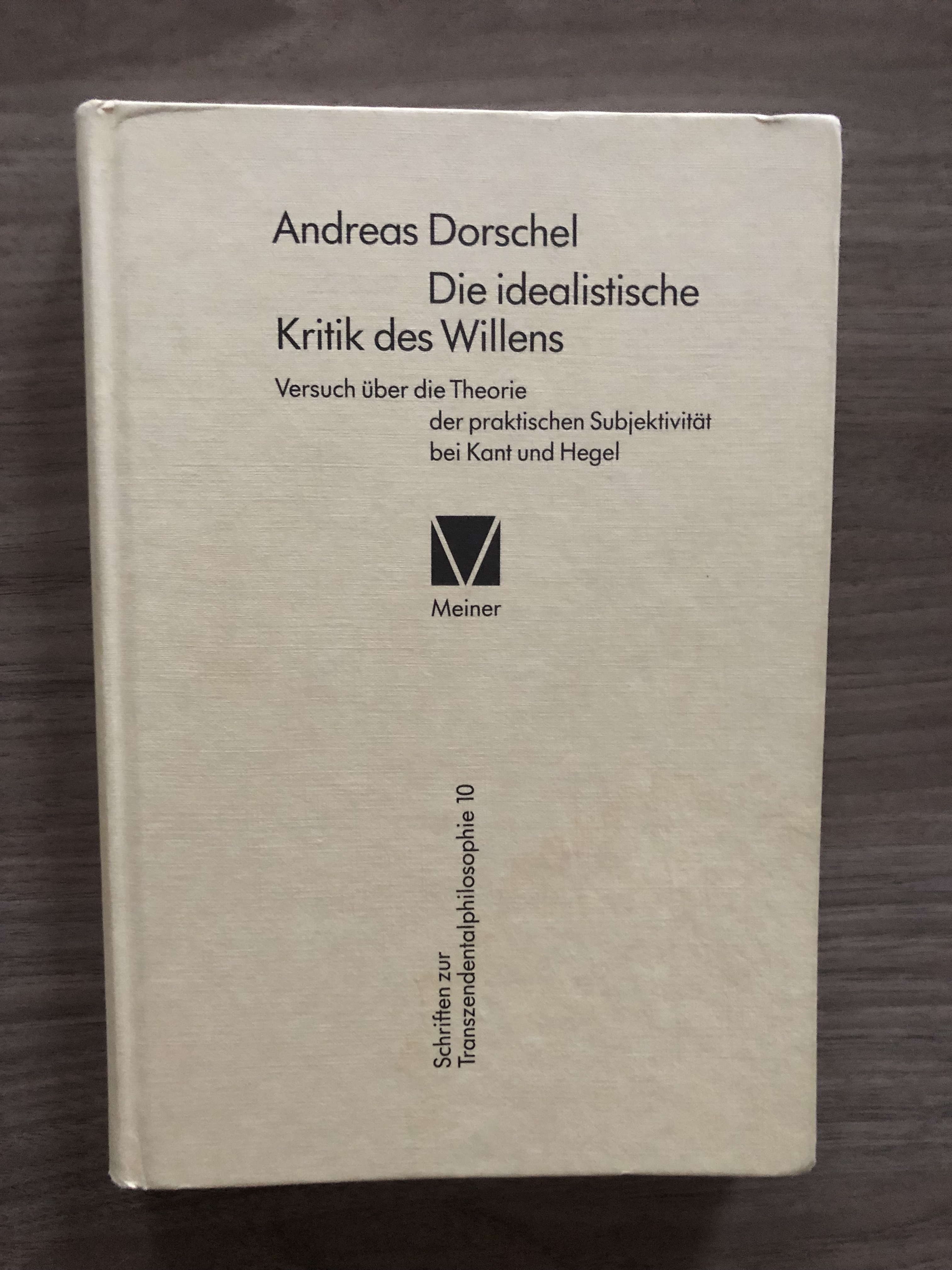 Andreas Dorschel, Die idealistische Kritik des Willens (1992)